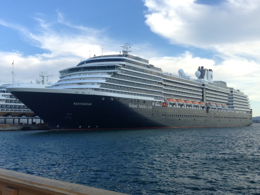 Westerdam docked in San Juan, Puerto Rico on November 24, 2015.